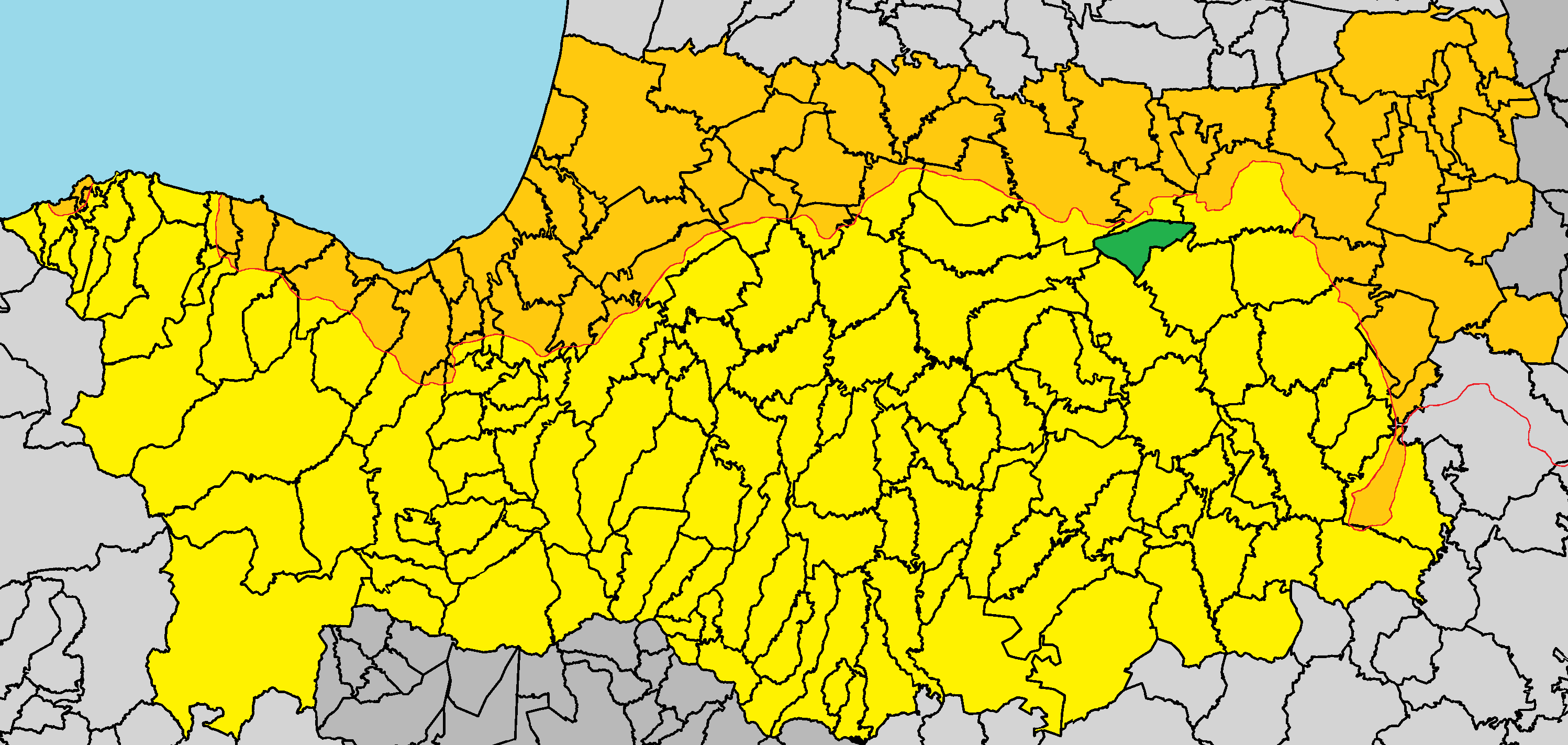 Engomi in Nicosia District.